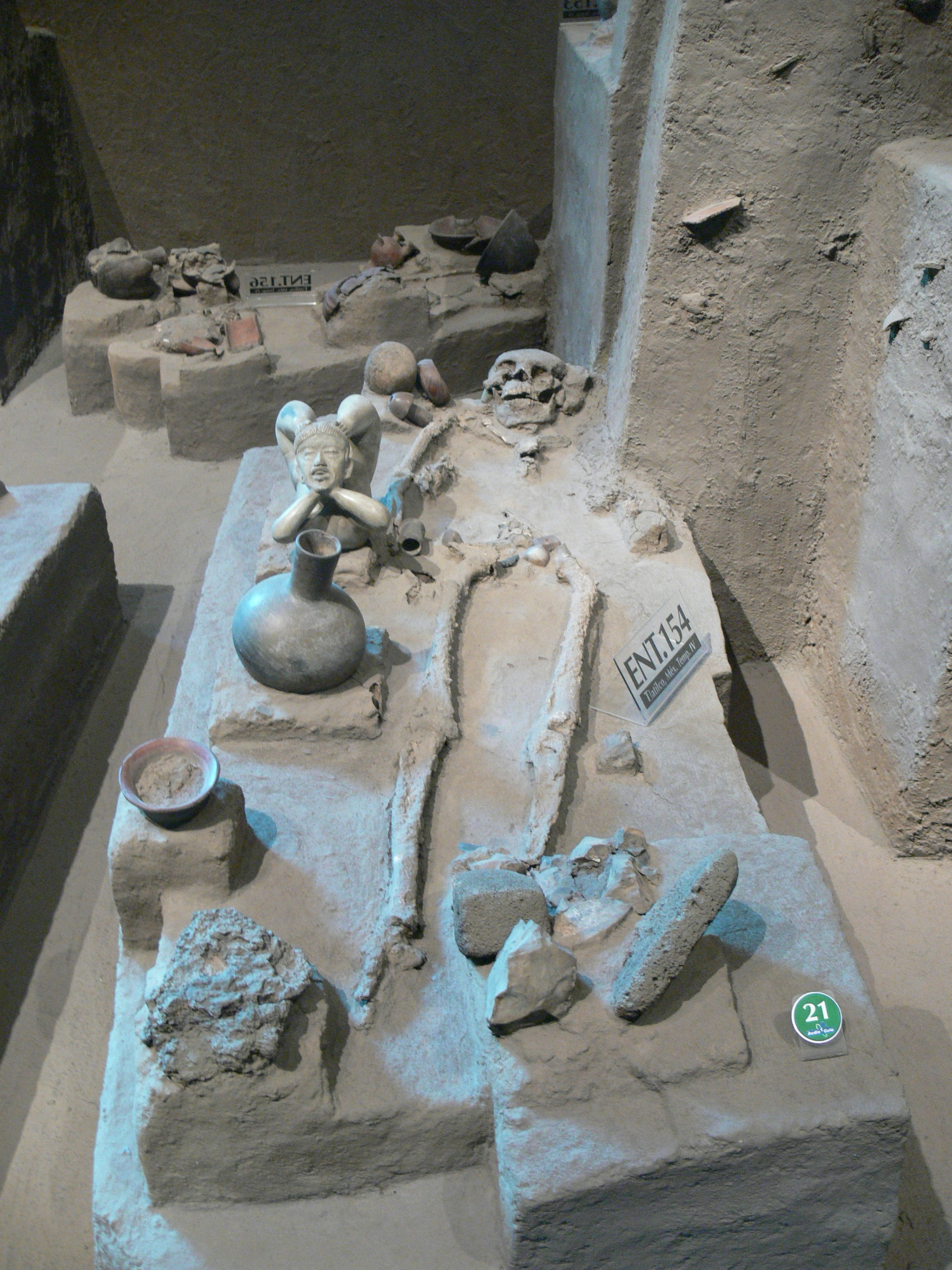 National Museum of Anthropology in Mexico City. Reconstruction of a burial in Tlatilco ( 1.400-600 BC )